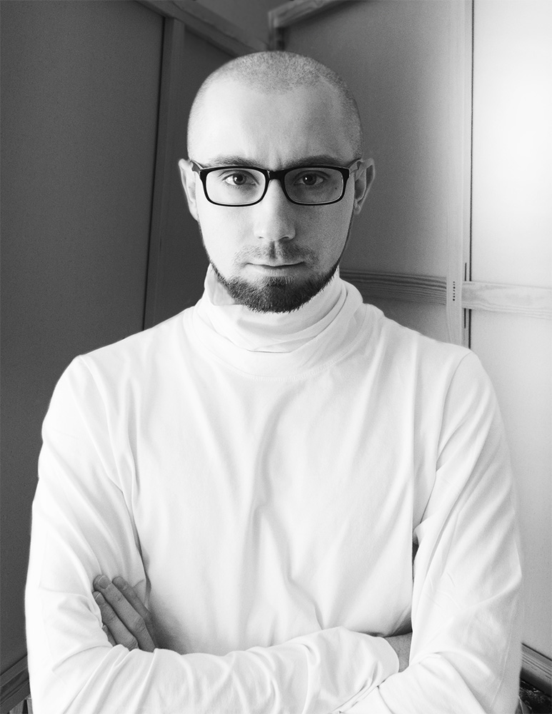 Maciej Cieśla 2018 self- portrait.